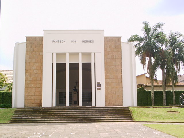 Pantheon of the Heroes (Panteon dos Heroes, archaic spelling). Pantheon wirth the bodies of those government soldiers that died during the defence of Lapa (Paraná, Brazil) in 1893.